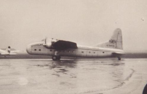 Bristol 170 Freighter 32 of Air Charter Limited at Manchester